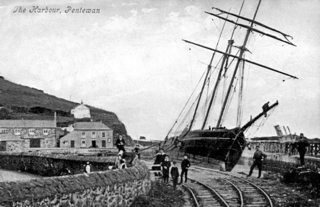 Sidings of the narrow gauge Pentewan Railway at the harbour with 3-masted sailing ship approx 1905